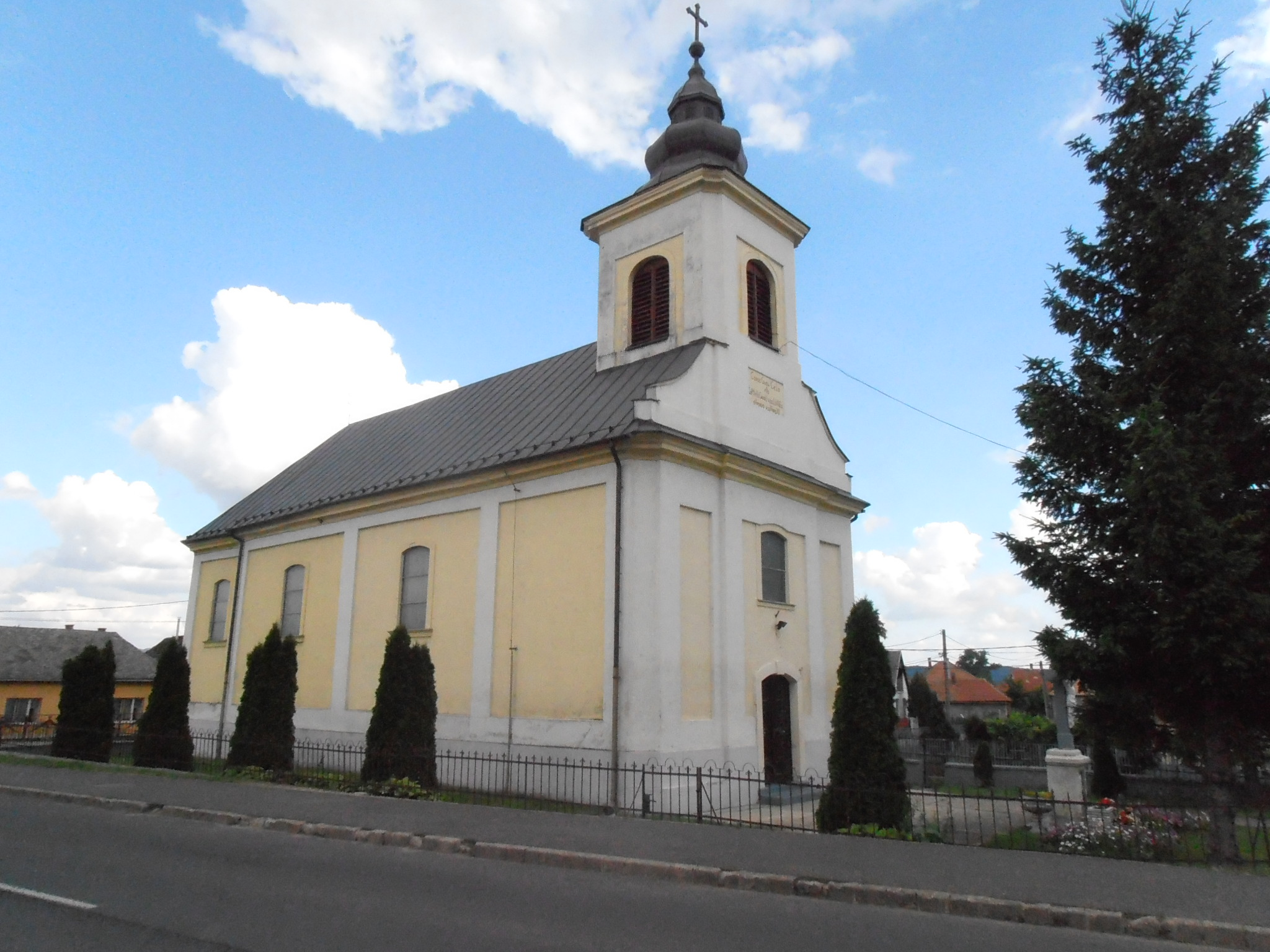 St. Joseph catholic church in Encs, Hungary